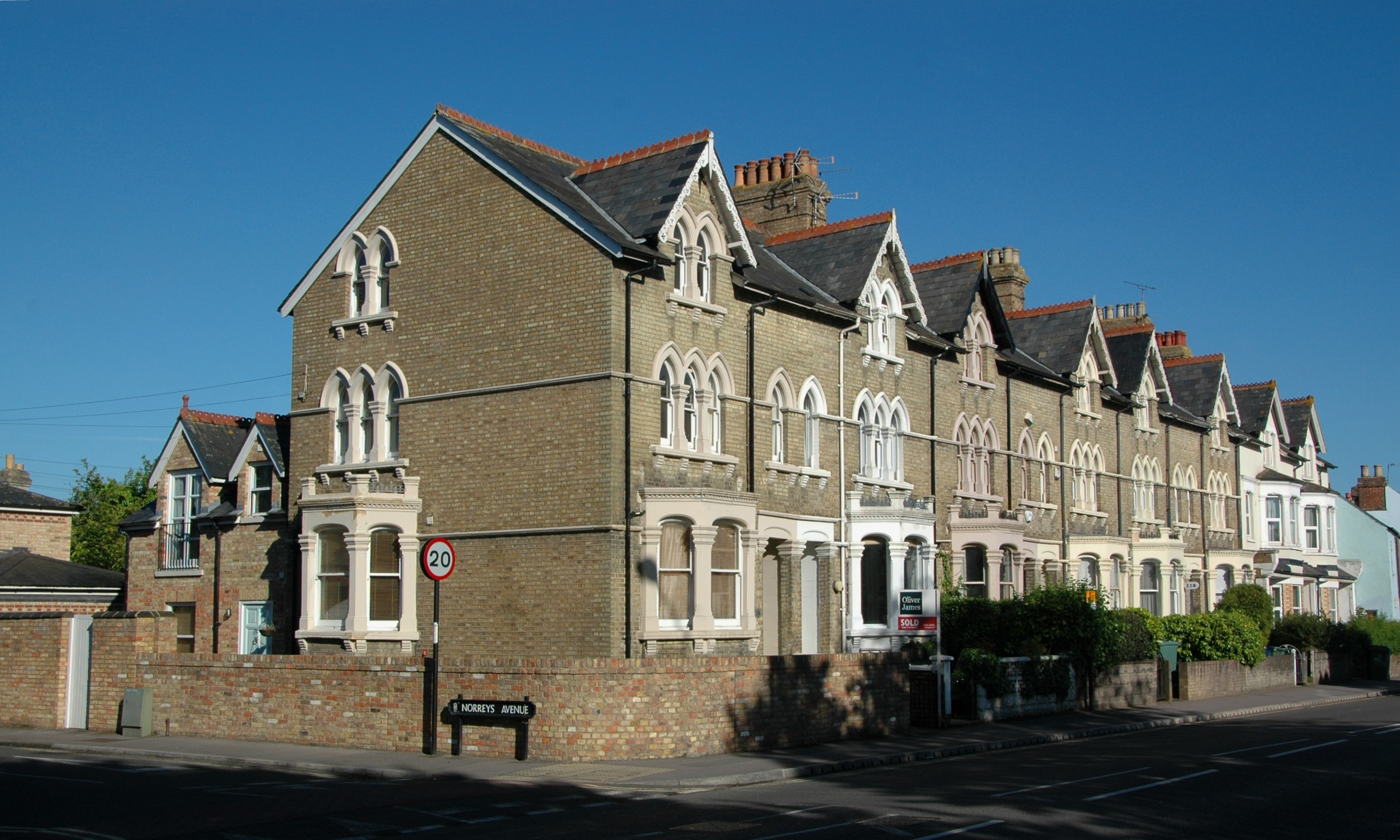 Victorian terraced houses in Abingdon Road, New Hinksey, Oxford